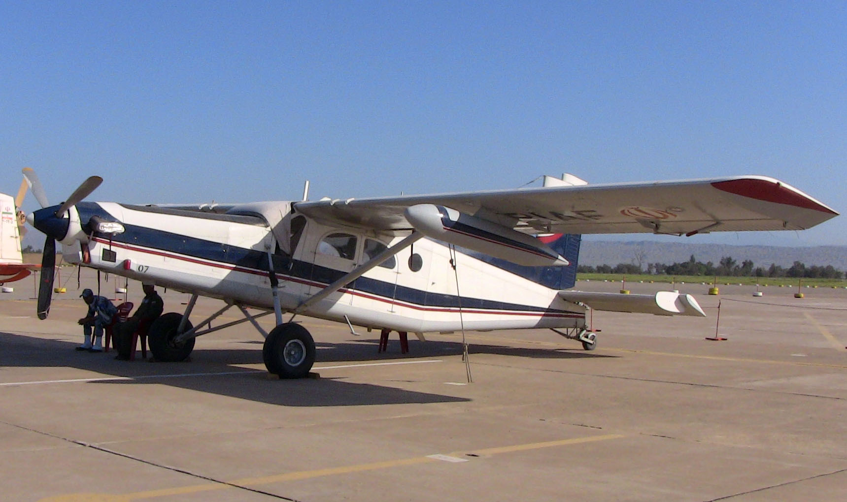 An Islamic Republic of Iran Air Force PC-6 Porter in Vahdati Airbase Air Show.